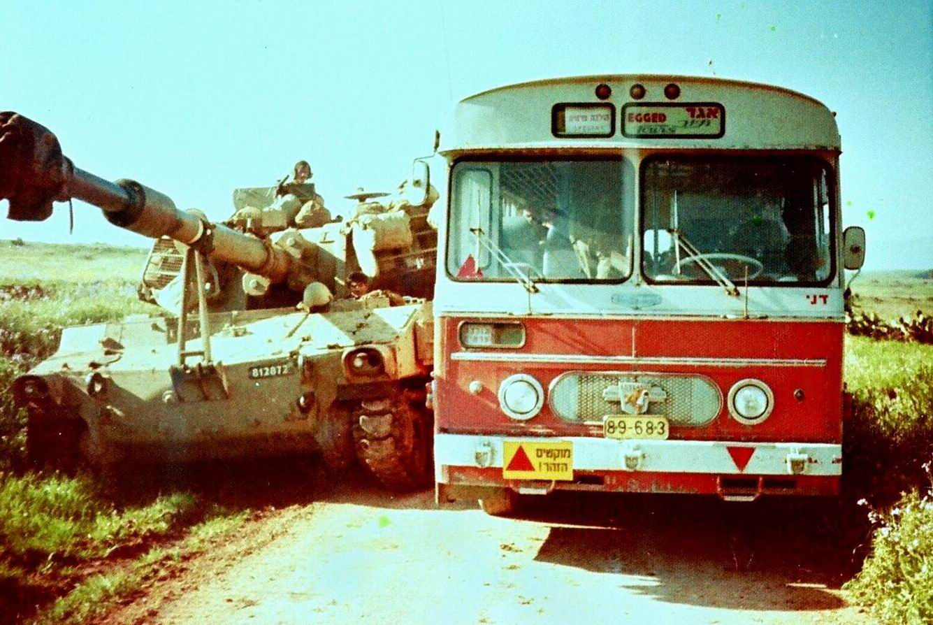 Transport in Israel